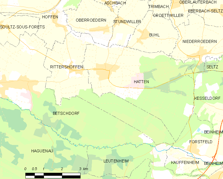 Map of French municipality